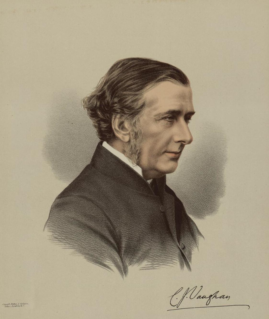 A portrait from the Welsh Portrait Collection at the National Library of Wales. Depicted person: Charles John Vaughan – Head Master of Harrow